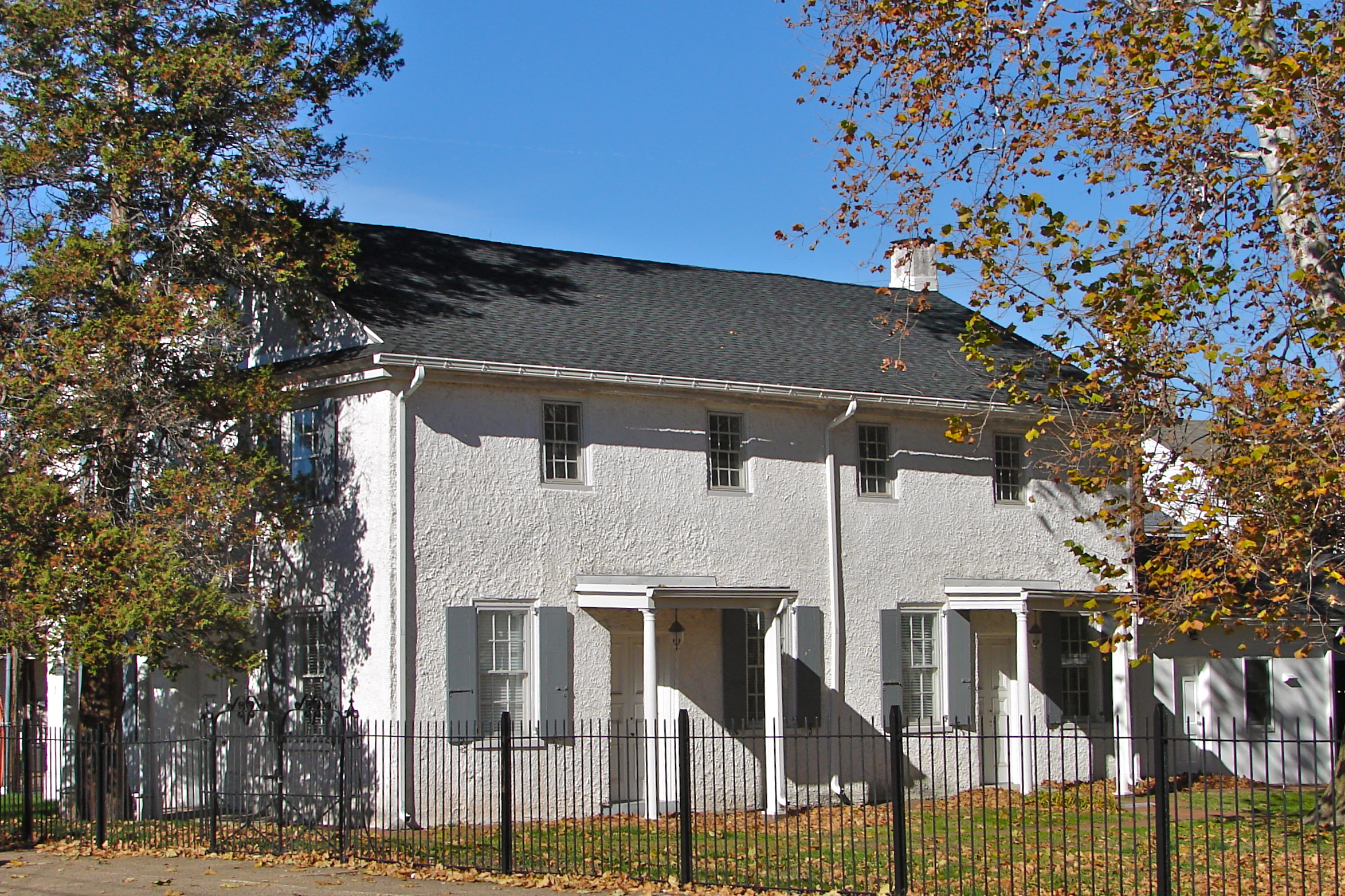 Bristol Friends (Quaker) Meetinghouse, Bristol, Pennsylvania, within the Bristol Historic District. The HD was listed on the NRHP on April 30, 1987 and is roughly bounded by Pond, Cedar, E. Lincoln Streets, the Delaware River, and E. Mill Street. The meetinghouse was built in 1711-1714 and partially reconstructed in 1728. The meeting itself goes back to 1700 or earlier and has coords of 40.09631,-74.857224 Central coords for the HD are 40°5′53″N 74°51′10″W